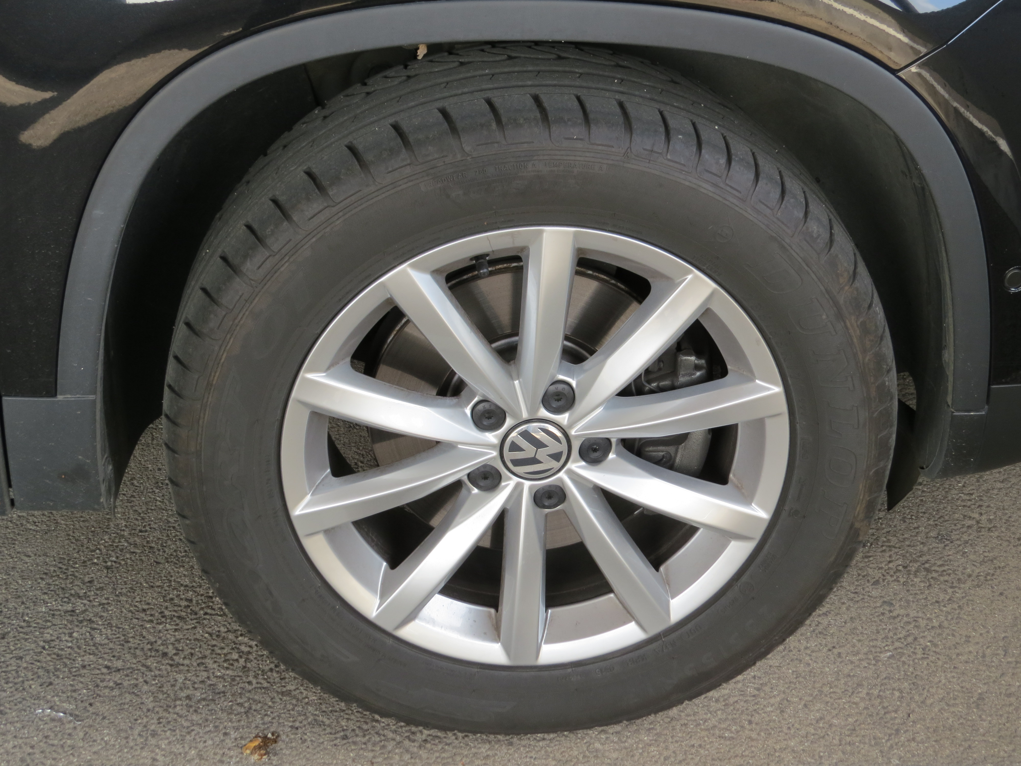 Dunlop SP Sport 01 235/55 R 17 99 V tire at Bahnhof Krems an der Donau